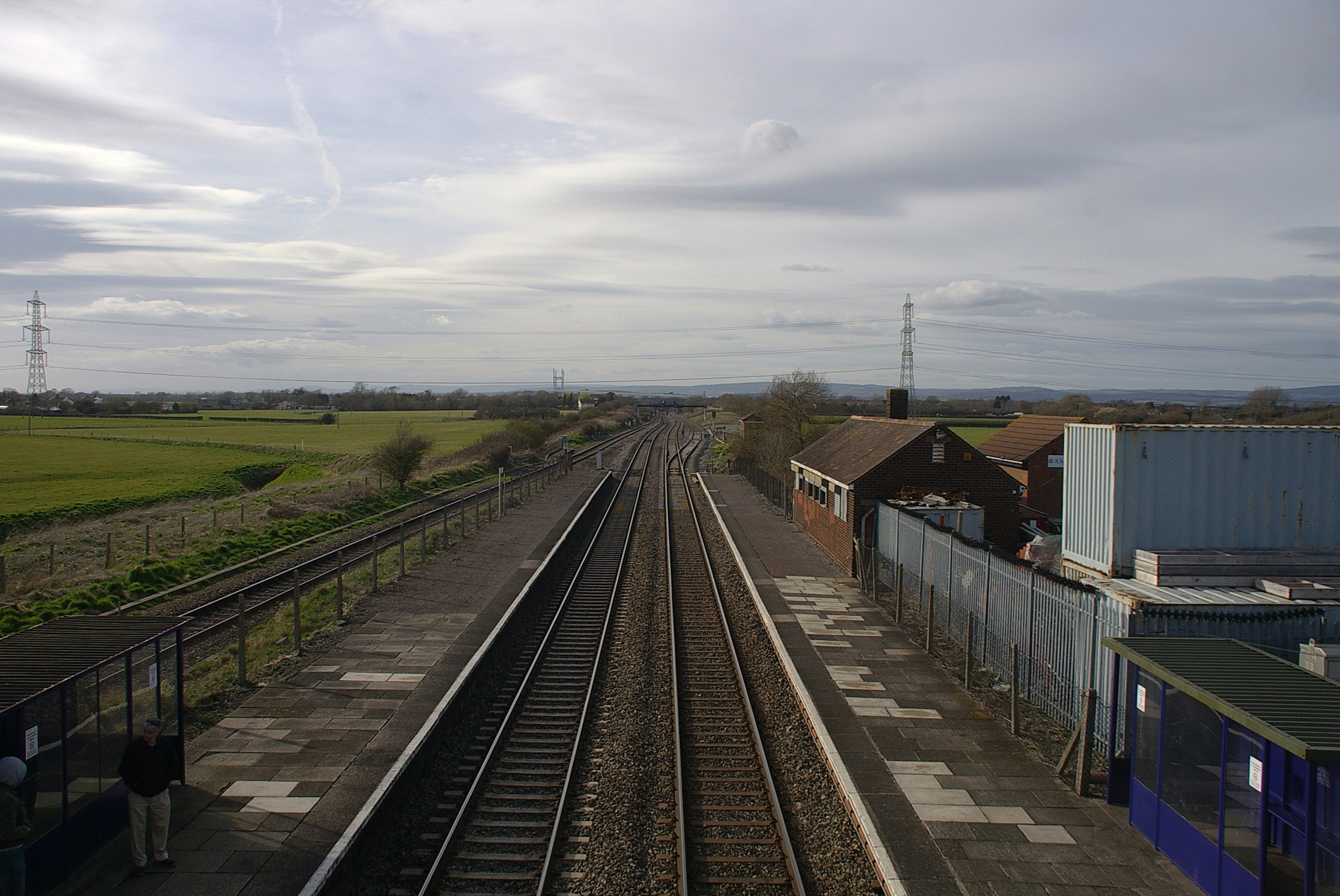 Looking towards the Severn tunnel from the footbridge at Pilning railway station.